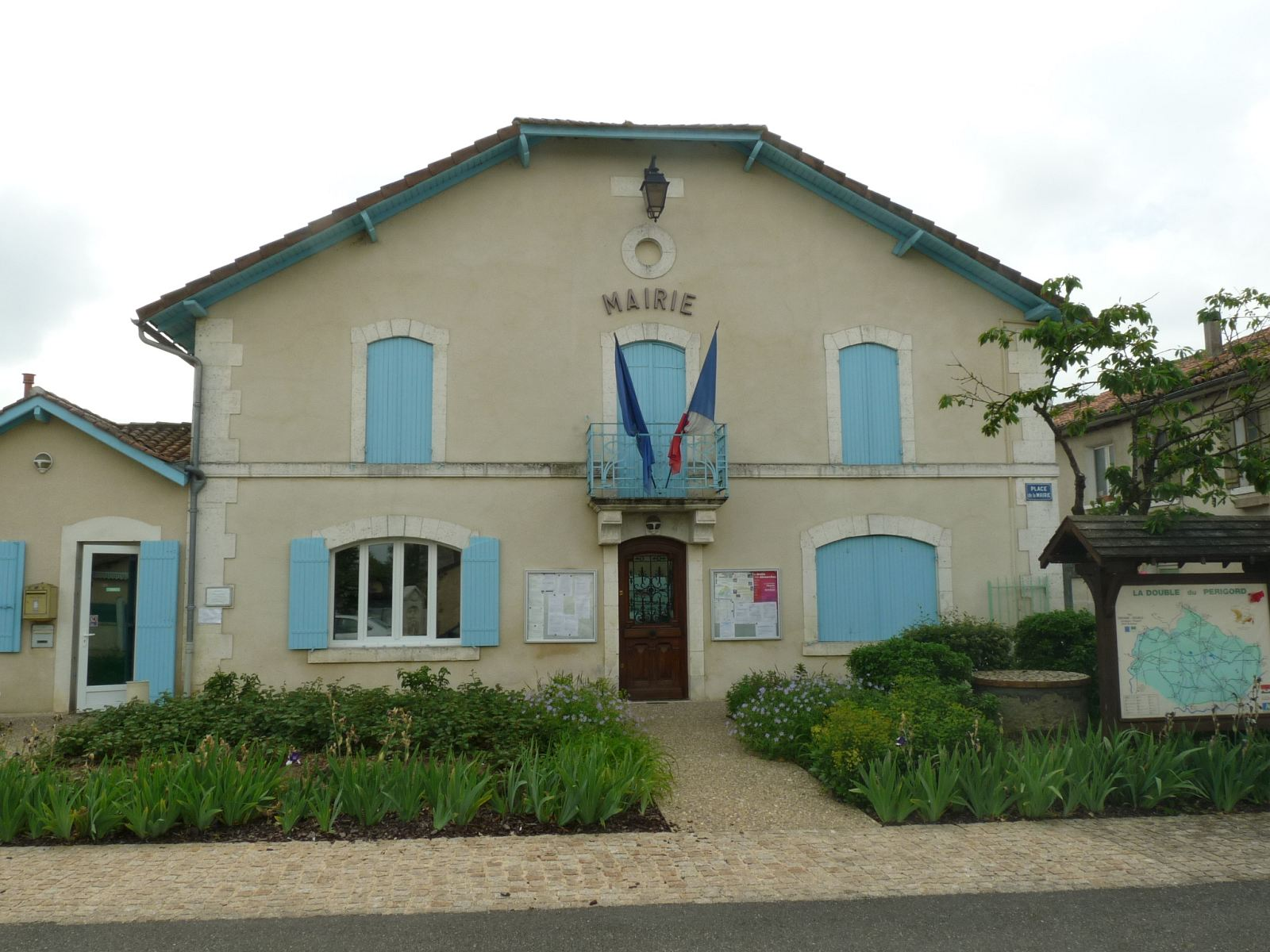 town hall of St-Antoine-Cumond , Dordogne, SW France